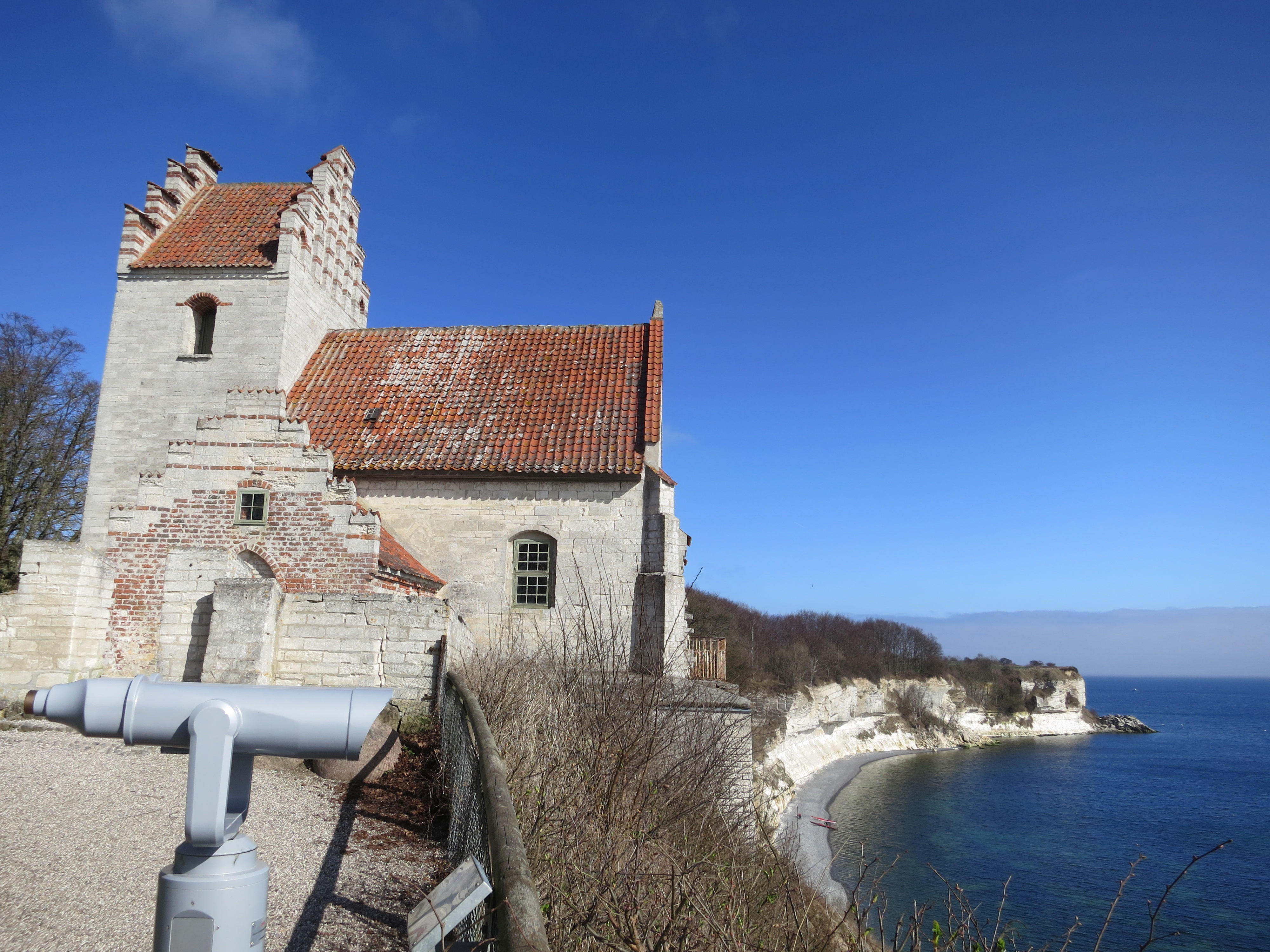 Højerup Old Church is a medieval church that was undermined by the extraction of lime from the cliff. The choir partially fell into the sea in 1928.